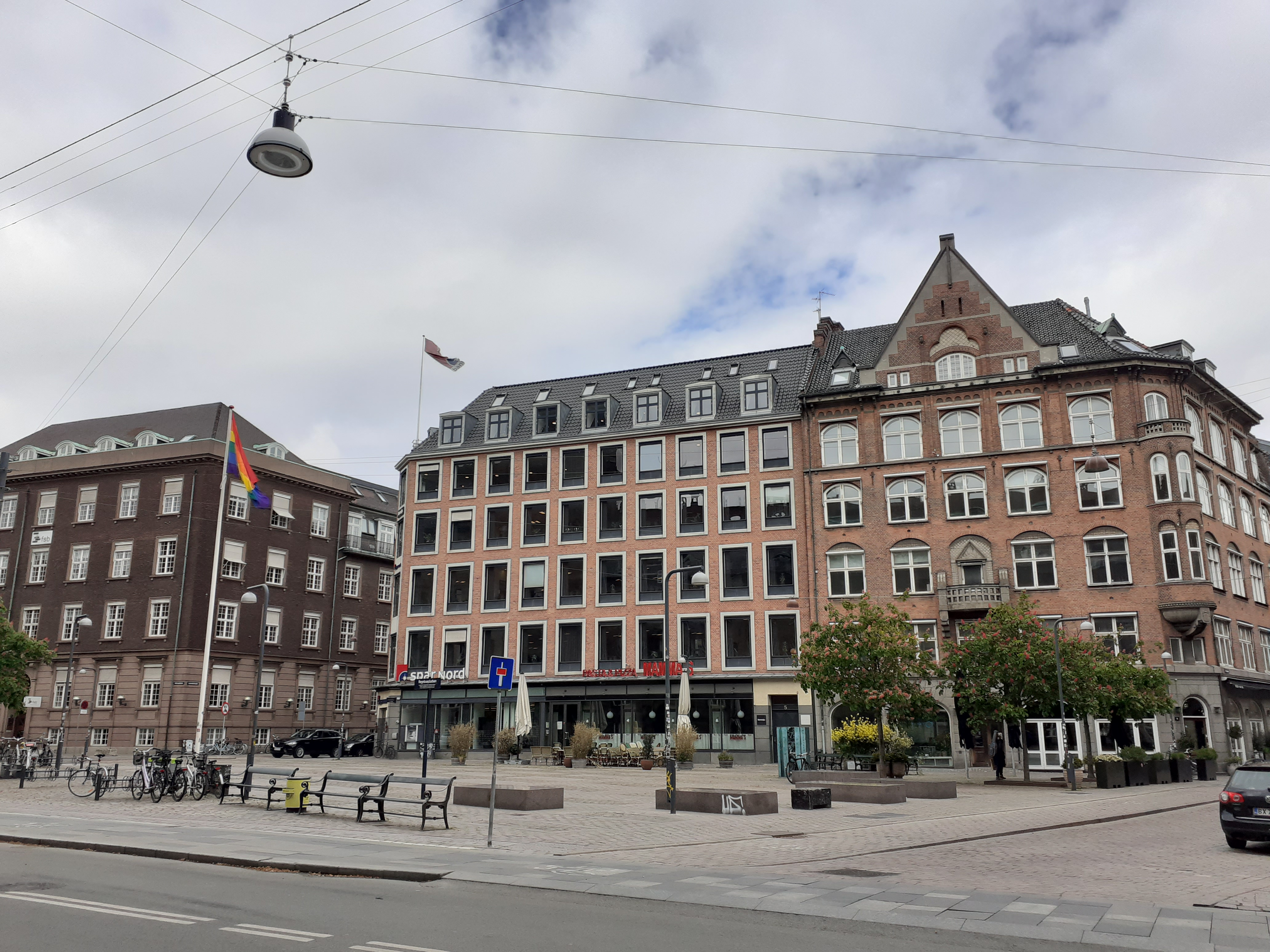 The square Regnbuepladsen in Indre By in Copenhagen. The name of the square is inspired by the LGBT rainbow flag and is meant to honor tolerance and diversity.